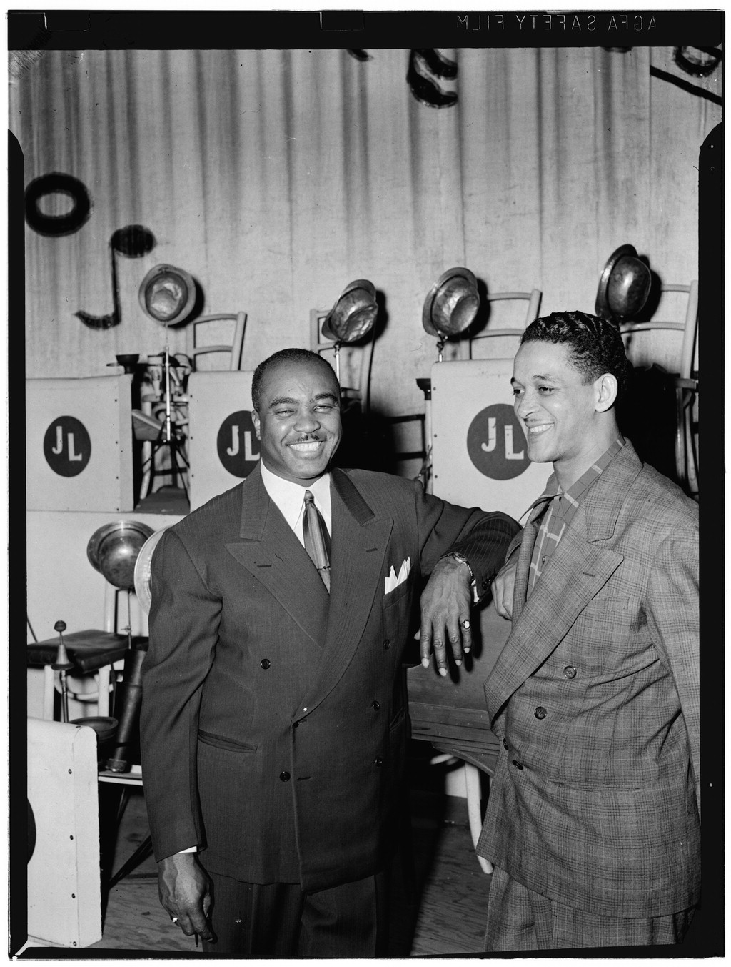 Trummy Young (right) and Jimmie Lunceford , ca. early 1940s (Photograph by William P. Gottlieb)